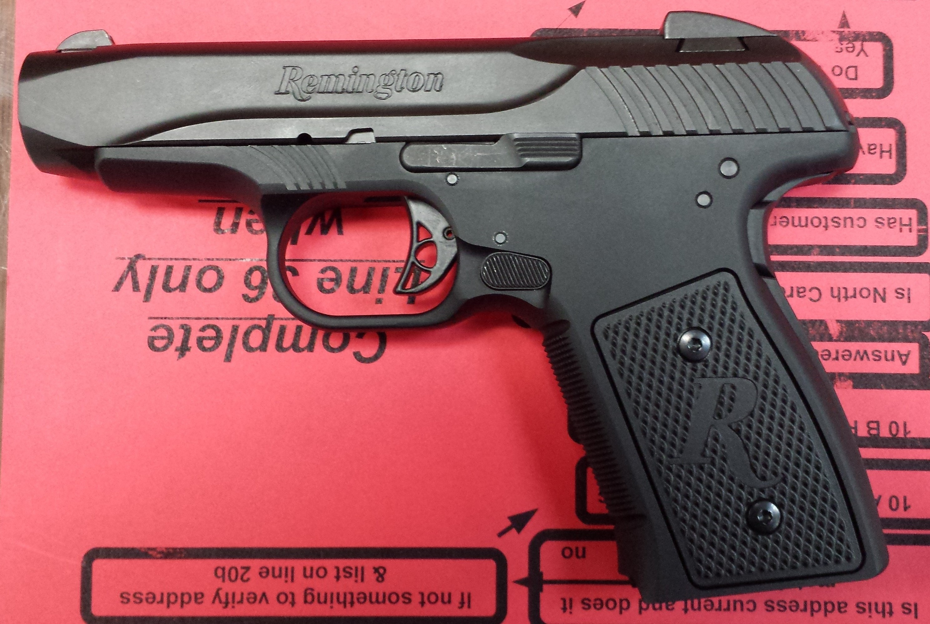 Remington R51 (First Generation)